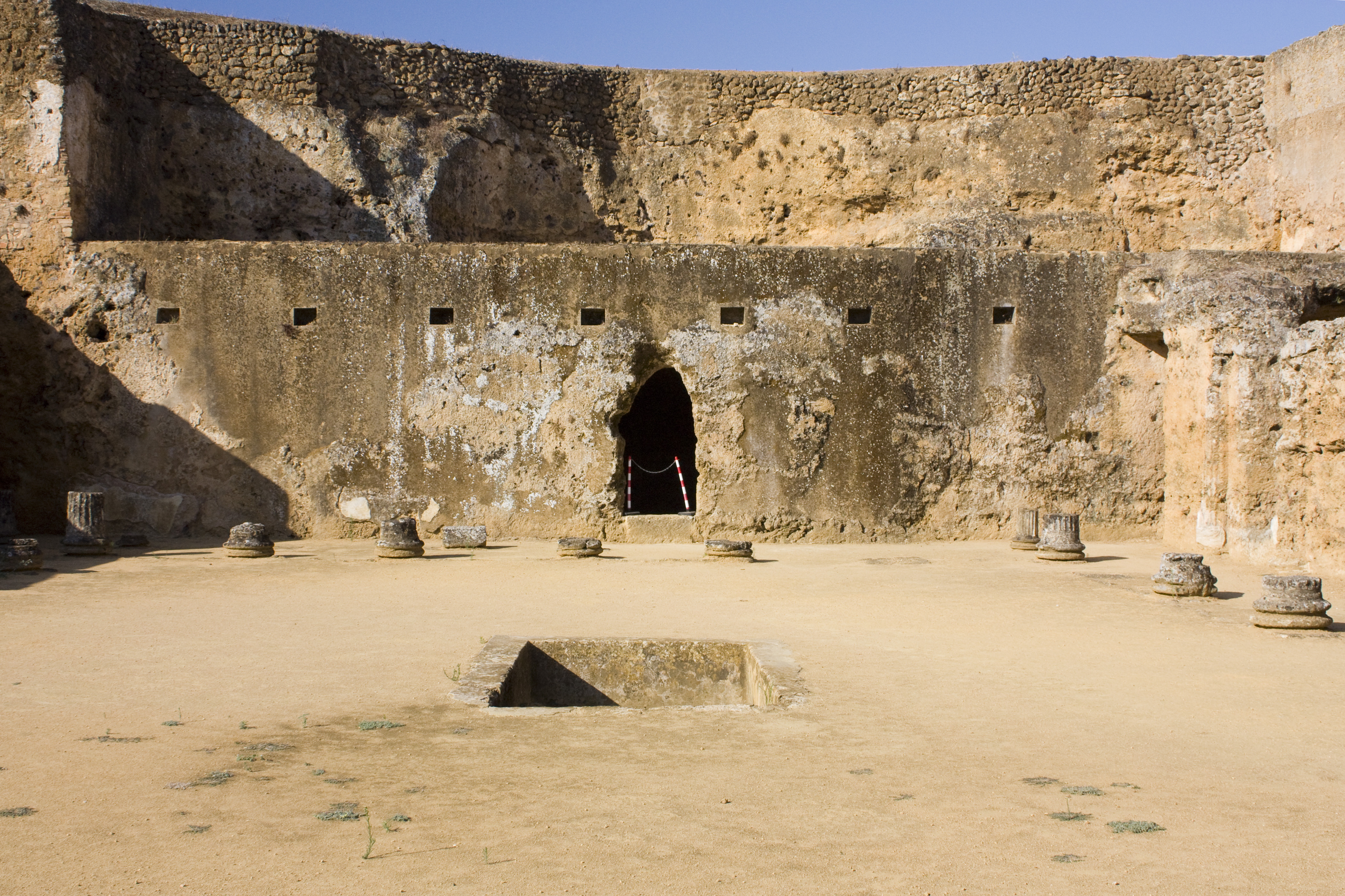 Temple around which were ordered the most recent tombs.